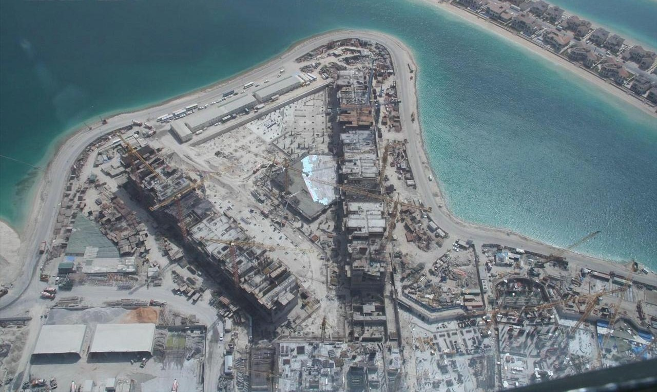 This is a photo showing the construction of the Oceana Resort & Spa located on the Trunk of the Palm Jumeirah in Dubai, United Arab Emirates as seen from the air on 1 May 2007.